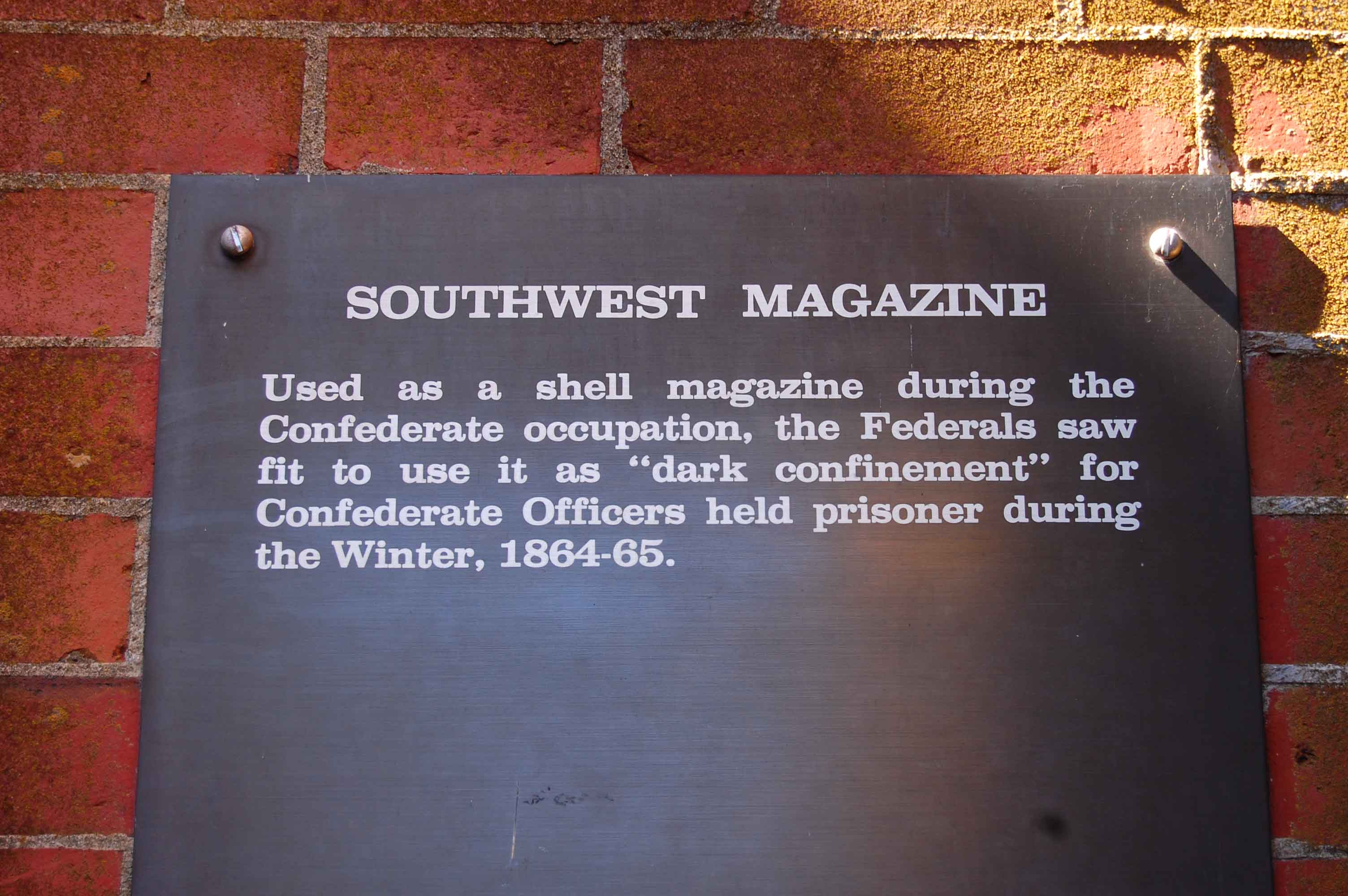 Southwest magazine. Ft. Pulaski magazine.